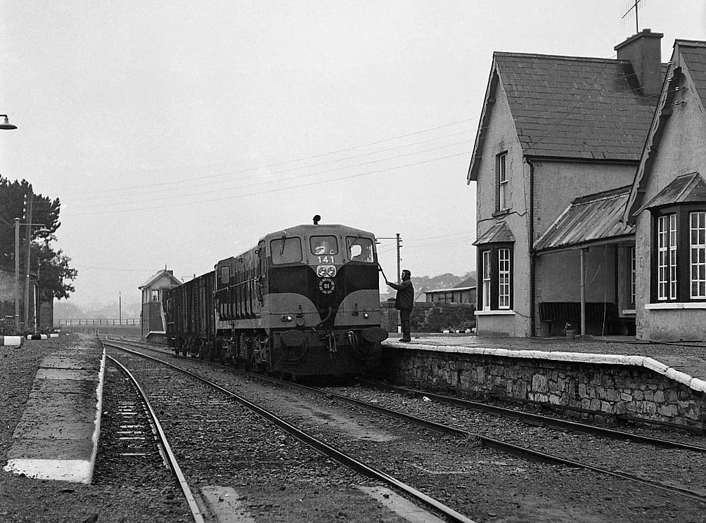 Freight train at Tubbercurry. A Sligo - Limerick freight train calls at Tubbercurry. While shown on Irish OS maps as Tobercurry, the various railway companies which owned the line from Collooney Junction to Claremorris used the name Tubbercurry. This section of the Burma Road closed from 3 November 1975. All buildings at this location are now believed demolished.